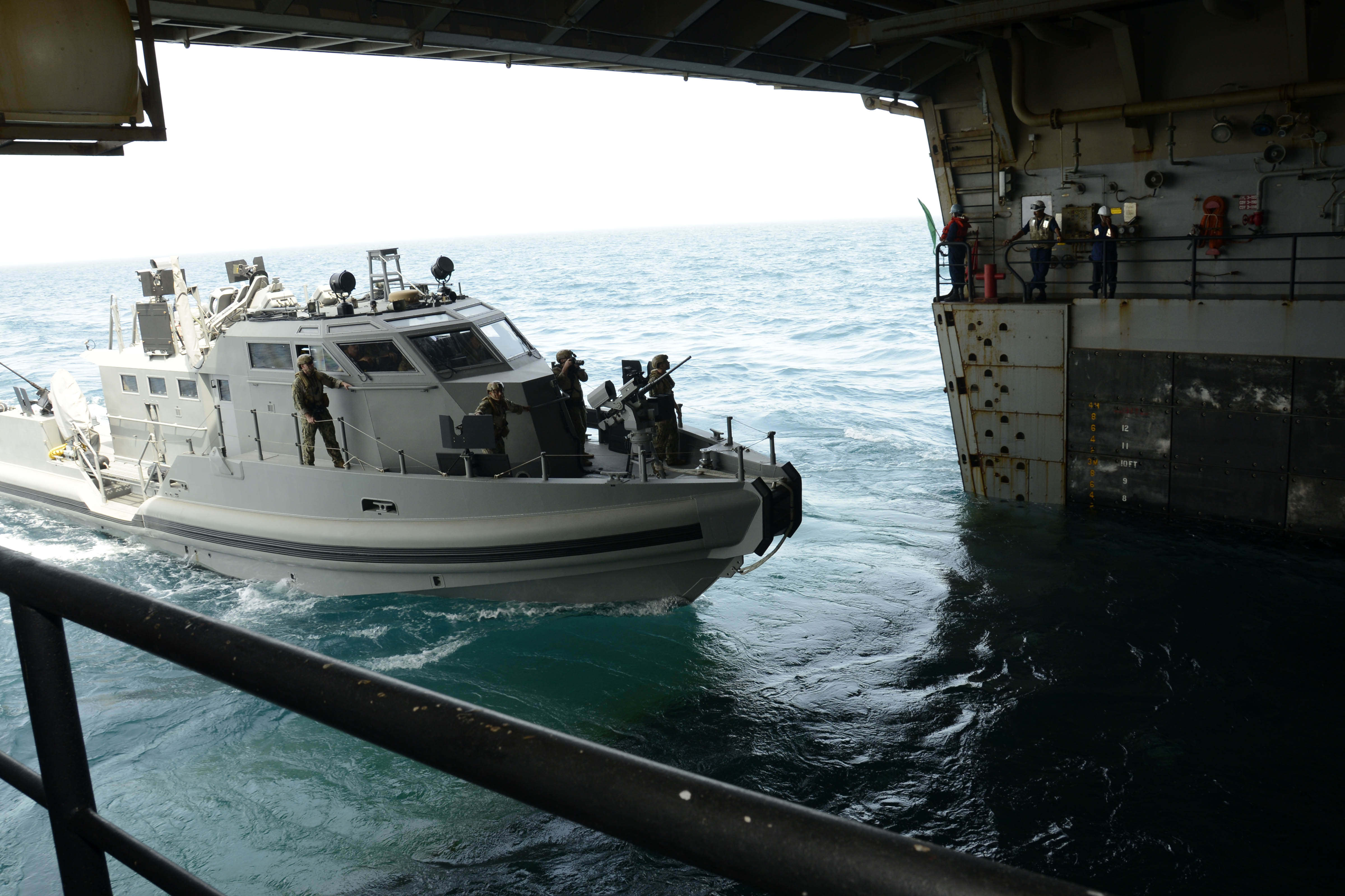 ARABIAN GULF (April 29, 2014) – Sailors aboard a Coastal Command Boat (CCB) assigned to Coastal Riverine Squadron Three enter the well deck aboard the amphibious transport dock ship USS Mesa Verde (LPD 19). Mesa Verde is a part of the Bataan Amphibious Ready Group and, with the embarked 22nd Marine Expeditionary Unit, is deployed in support of maritime security operations and theater security cooperation efforts in the U.S. 5th Fleet area of responsibility. (U.S. Navy photo by Seaman Phylicia A. Hanson/Released)